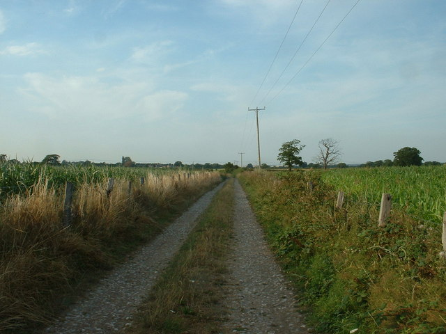 Disused railway near Lower Kinnerton. Now a farm track. The '40s map shows a station near here [behind the photographer], but there is no trace of this or the bridge over the road between Lower and Higher Kinnerton.